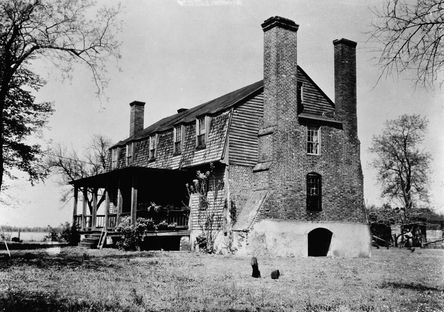 Windsor Shade, Pamunkey River, Sweet Hall vicinity (King William County, Virginia) cropped This file comes from the Historic American Buildings Survey (HABS), Historic American Engineering Record (HAER) or Historic American Landscapes Survey (HALS). These are programs of the National Park Service established for the purpose of documenting historic places. Records consist of measured drawings, archival photographs, and written reports. When reusing please credit: Library of Congress, Prints & Photographs Division, VA,51-SWEHA.V,1-1 This tag does not indicate the copyright status of the attached work. A normal copyright tag is still required. See Commons:Licensing. This work is in the public domain in the United States because it is a work prepared by an officer or employee of the United States Government as part of that person’s official duties under the terms of Title 17, Chapter 1, Section 105 of the US Code. Note: This only applies to original works of the Federal Government and not to the work of any individual U.S. state, territory, commonwealth, county, municipality, or any other subdivision. This template also does not apply to postage stamp designs published by the United States Postal Service since 1978. (See § 313.6(C)(1) of Compendium of U.S. Copyright Office Practices). It also does not apply to certain US coins; see The US Mint Terms of Use. This file has been identified as being free of known restrictions under copyright law, including all related and neighboring rights.